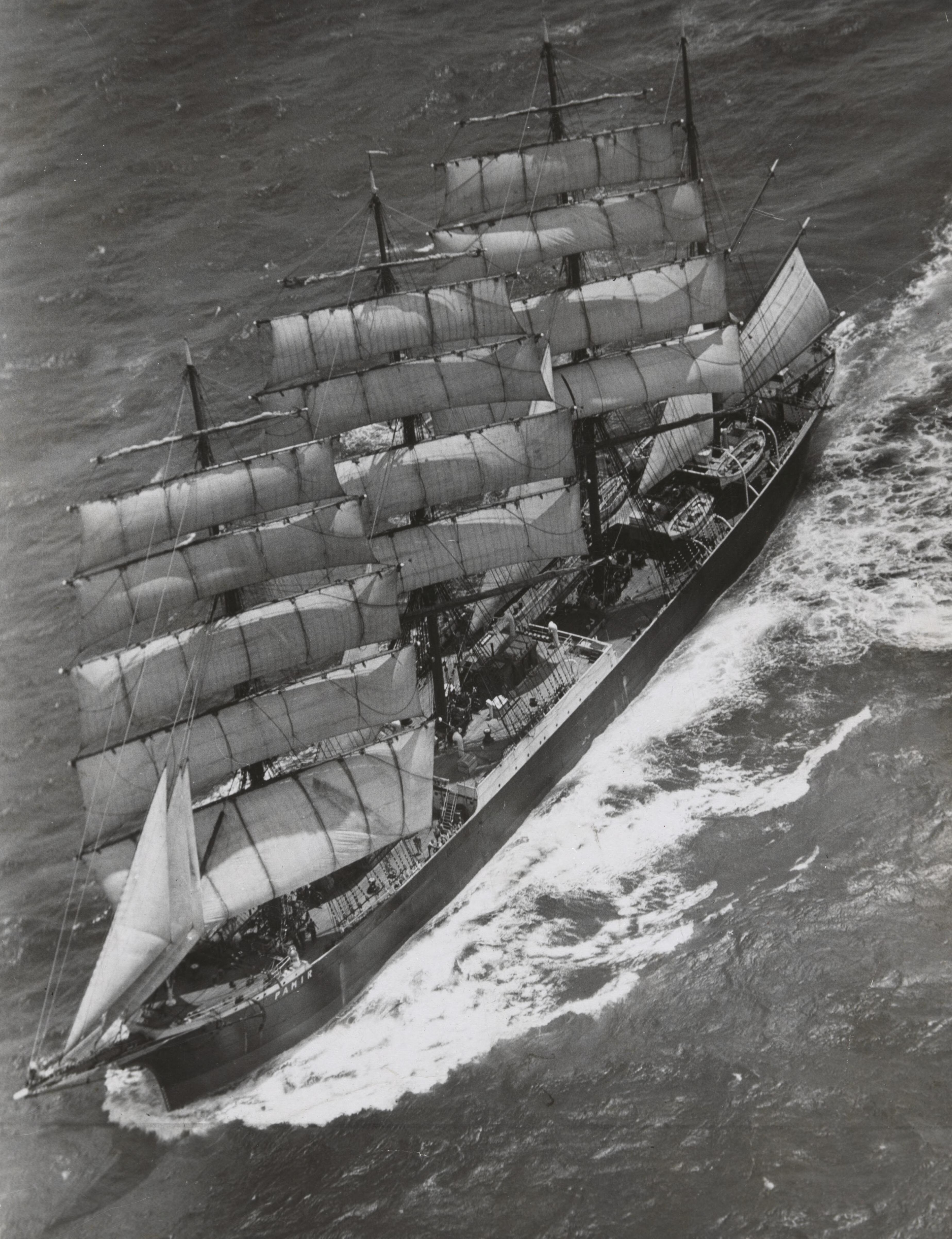 Aerial view of the Pamir.